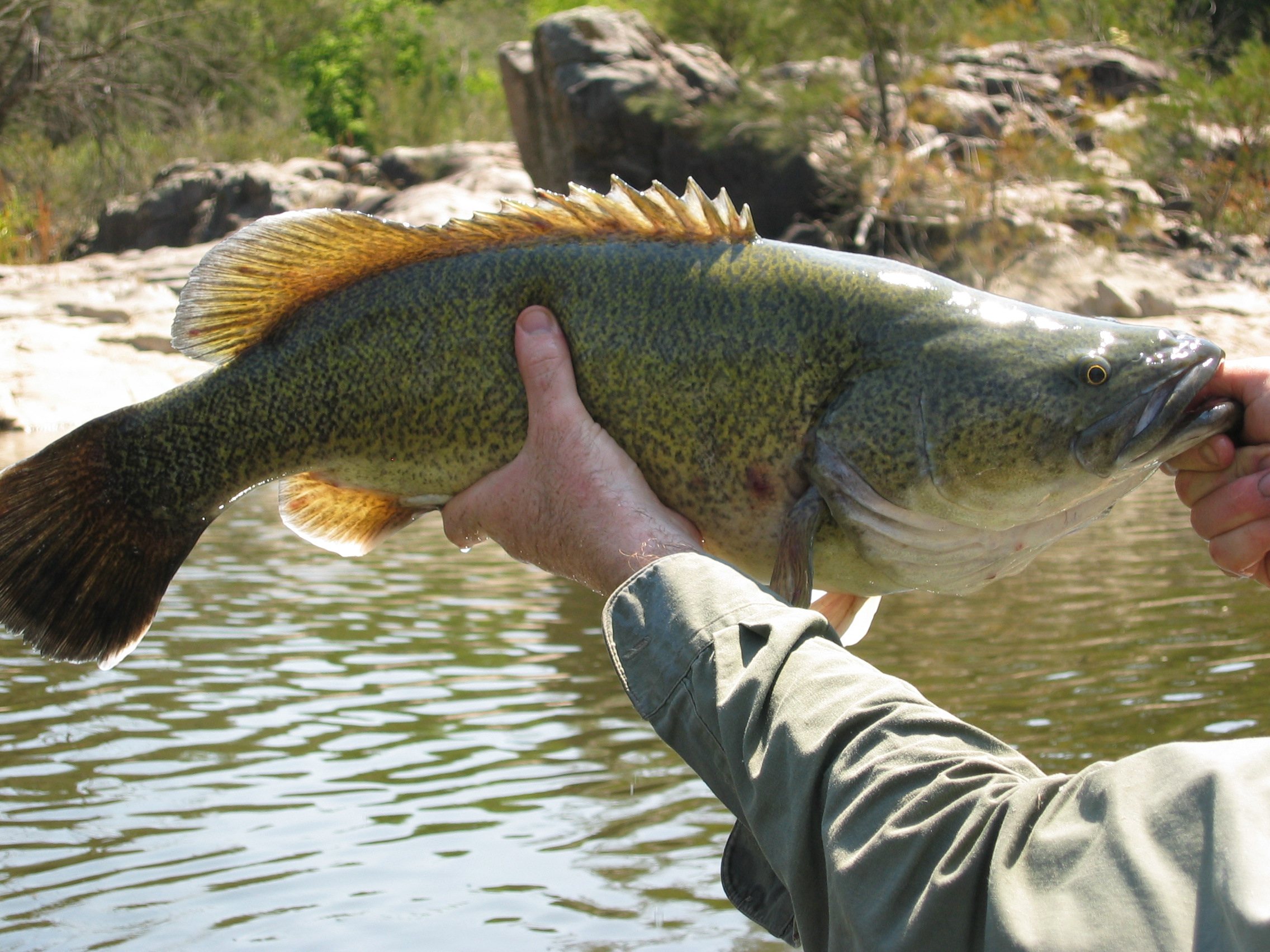 This sizeable Murray cod was caught on a lure equipped with barbless hooks, in a shallow fast-flowing run in an upland river. It was carefully released after the photo.